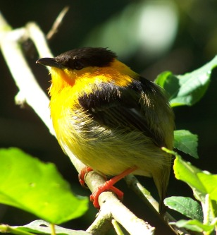 Chase Mendenhall, April 2006, Las Cruces, Costa Rica.